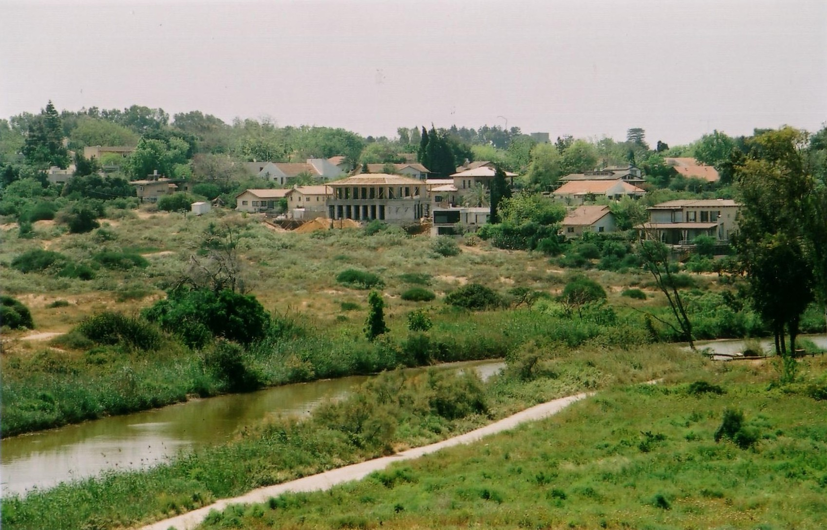 Hofit and Alxander Creek, as seen from Hirbet Samara